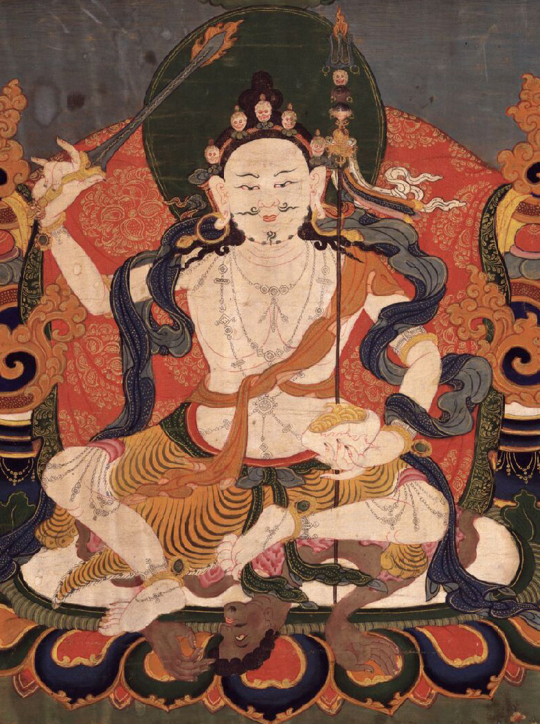 Do Khyentse Yeshe Dorje, b.1800 - d.1866, Body emanation of Jigme Lingpa